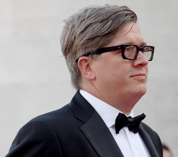 Director Tomas Alfredson at the London Premiere of Tinker Tailor Soldier Spy. BFI South Bank, Tuesday 13th September 2011